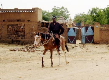 Original caption states, "Janjaweed are omnipresent. They are seen in marketplaces and within walking distance of refugee camps. They have terrorized black Africans in Darfur for more than a year."